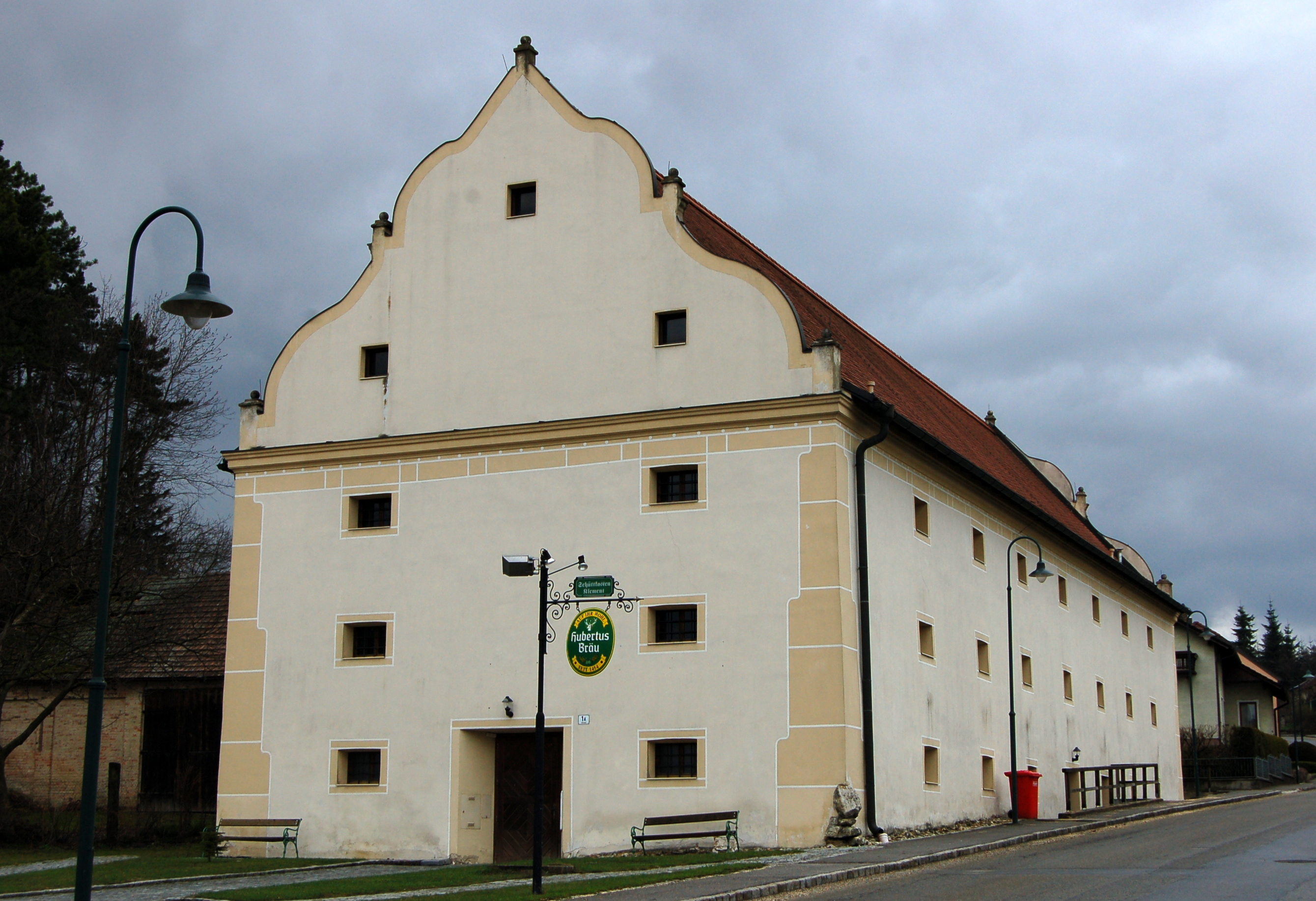 Baroque granary in Klement, Ernstbrunn municipality, Lower Austria